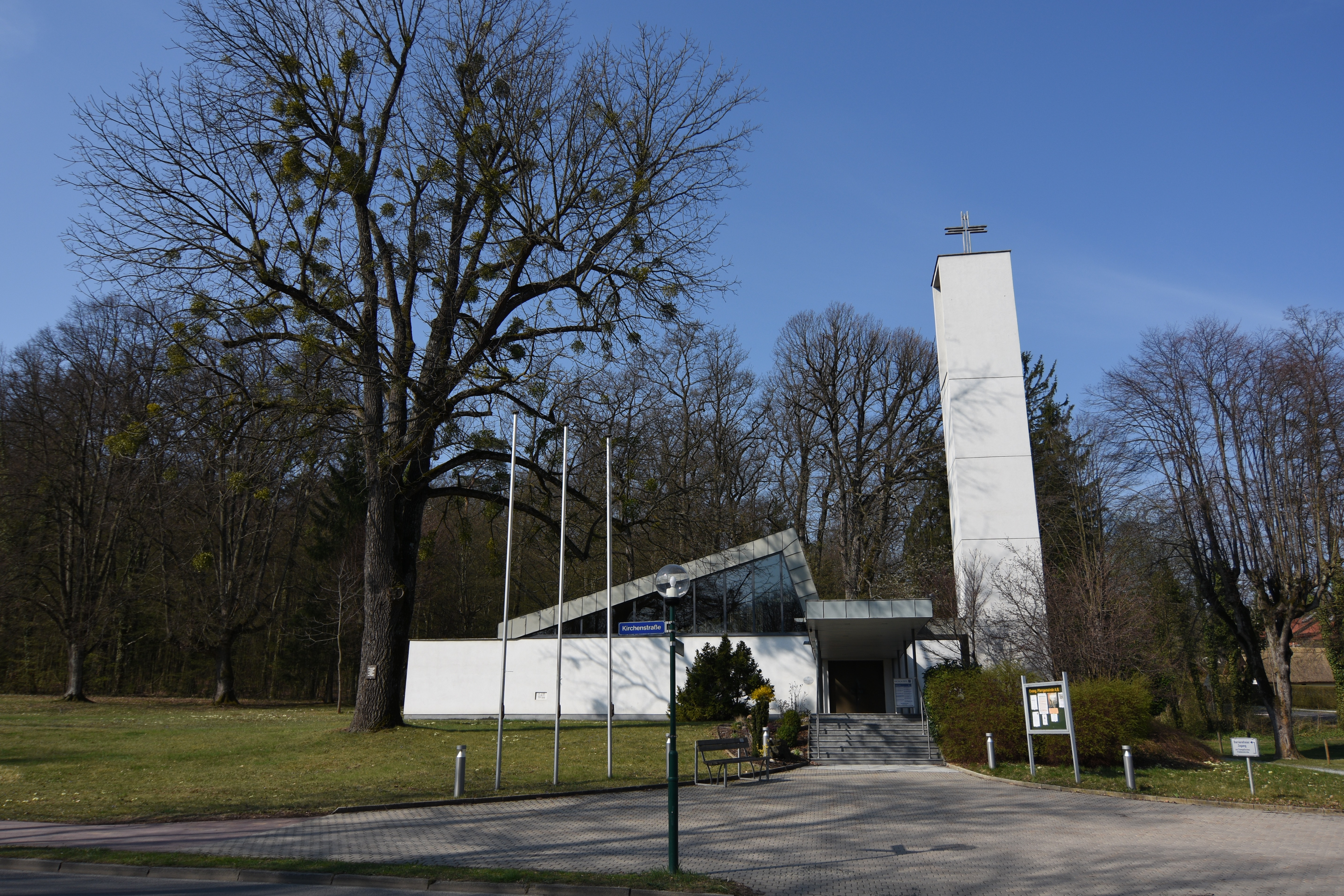 Church Evangelische Friedenskirche, Bad Tatzmannsdorf